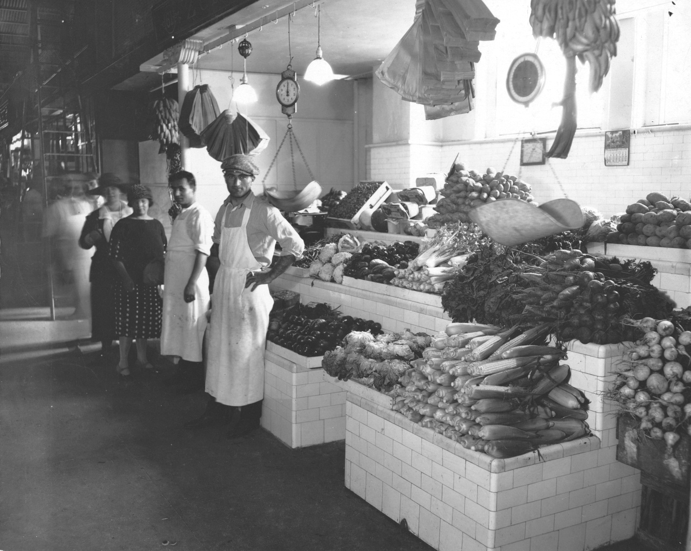 Original Caption: This photograph represents a modern fruit and vegetable stand in Center Market. The stand as designed by this department and built under our supervision. U.S. National Archives’ Local Identifier: 83-G-6125 From: Photographic Prints Documenting Programs and Activities of the Bureau of Agricultural Economics and Predecessor Agencies, compiled ca. 1922 - ca. 1947, documenting the period ca. 1911 - ca. 1947 Created By: Department of Agriculture. Bureau of Agricultural Economics. Division of Economic Information. (ca. 1922 - ca. 1953) Production Date: 10/1922 Persistent URL: Repository: National Archives at College Park - Still Pictures (RD-DC-S) For information about ordering reproductions of photographs held by the Still Picture Unit, visit: Reproductions may be ordered via an independent vendor. NARA maintains a list of vendors at